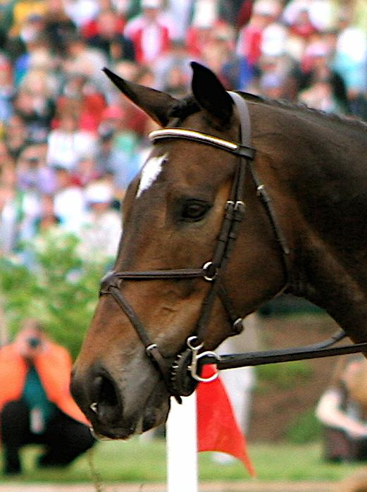 Eventer at rolex (head). Shows a boucher bit, figure-8 noseband.